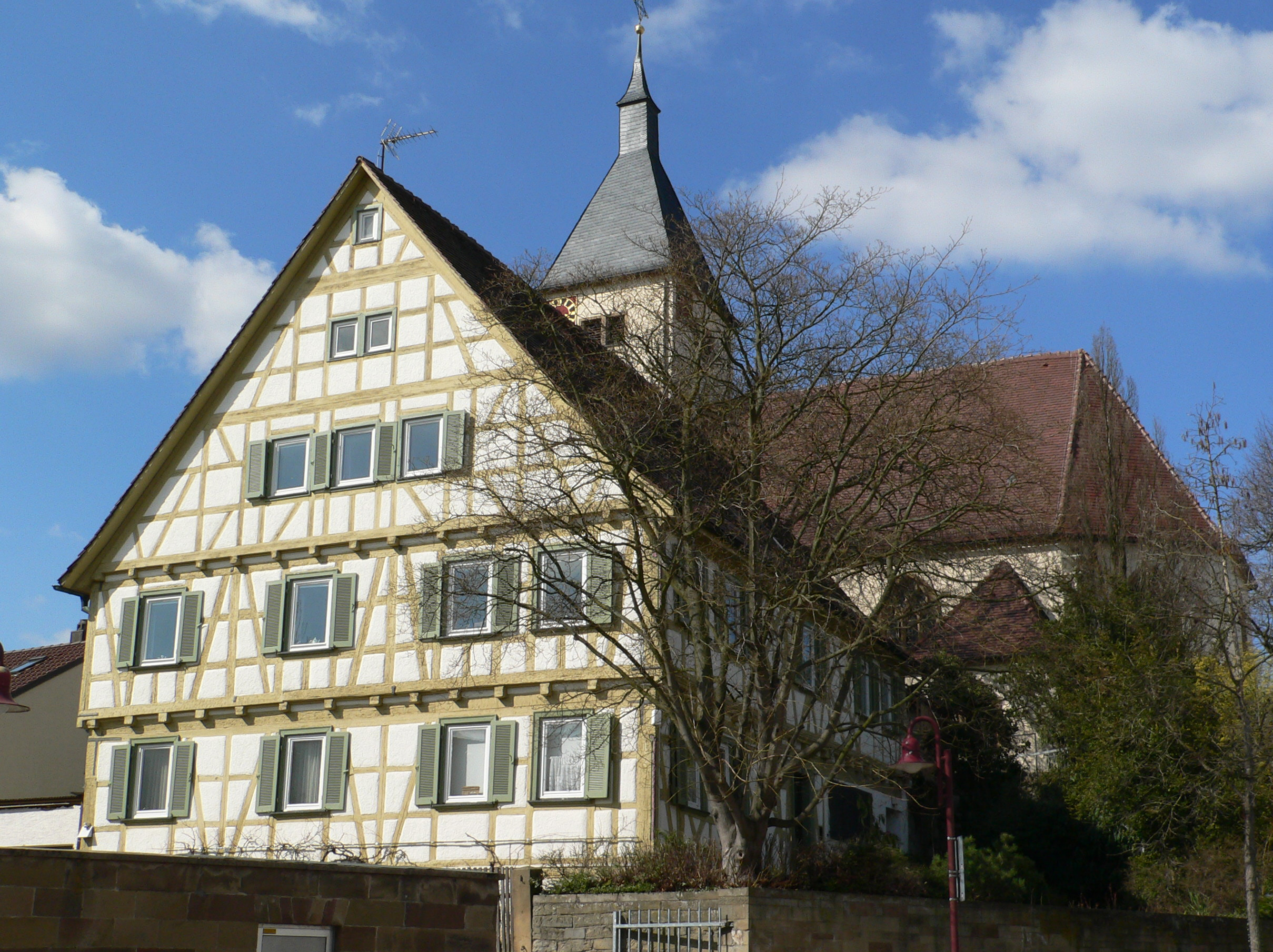 Vicarage and Church "Mauritius" of the small town Neckarsulm-Obereisesheim